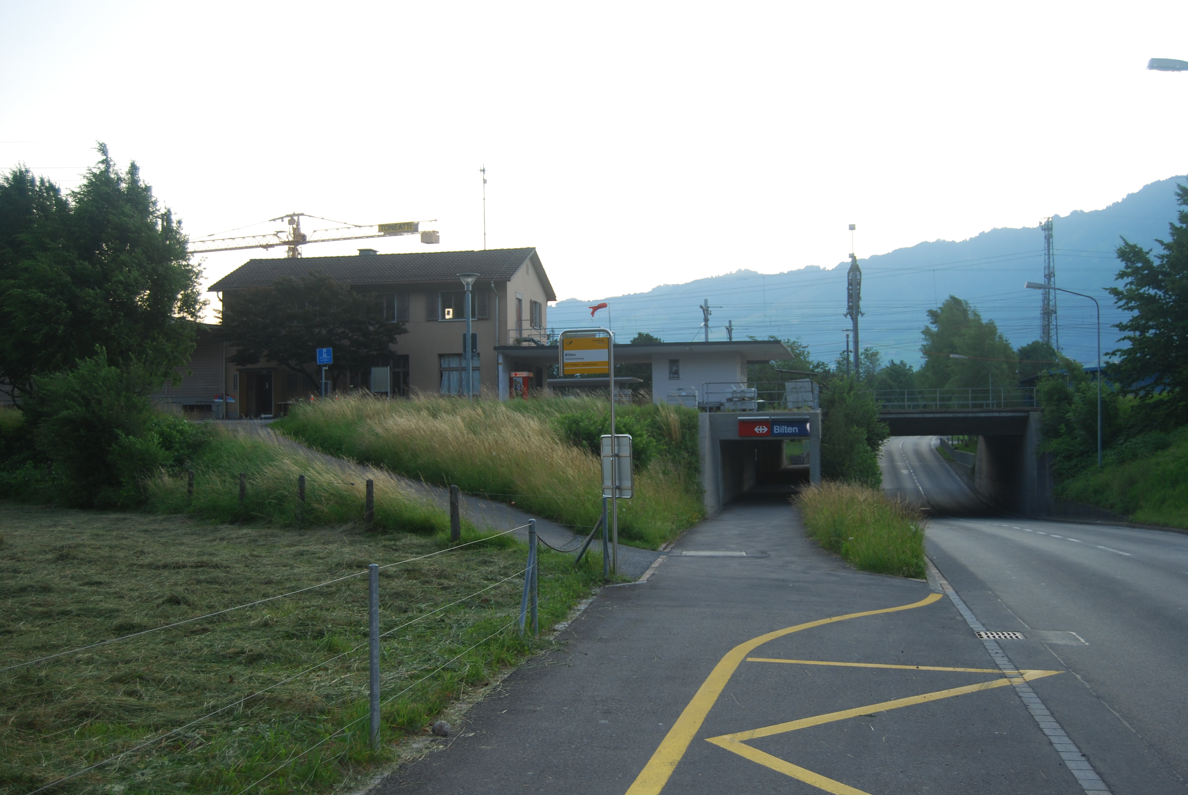 Train station of Bilten, canton of Glarus, SwitzerlandEsperanto: Stacidomo de Bilten, Kantono Glaruso, Svislando